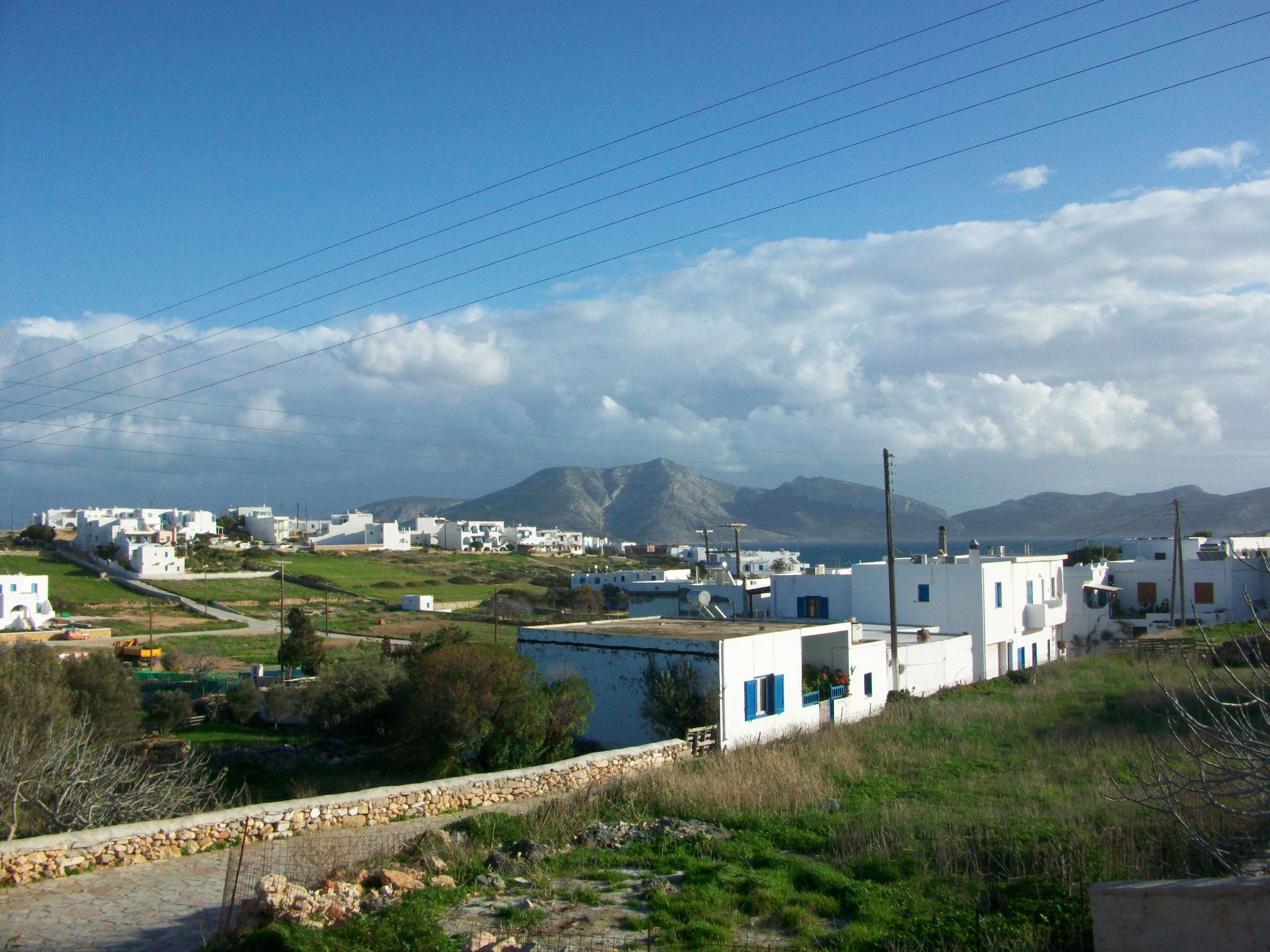 Ano Koufonisi island in Kyklades, Greece